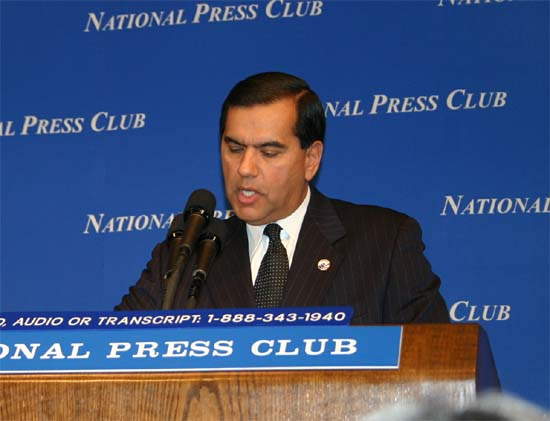 This is a photo of Peace Corps Director Gaddi Vasquez addressing the National Press Club in Washington DC on October 14, 2004 that I took myself and am releasing into Public Domain.